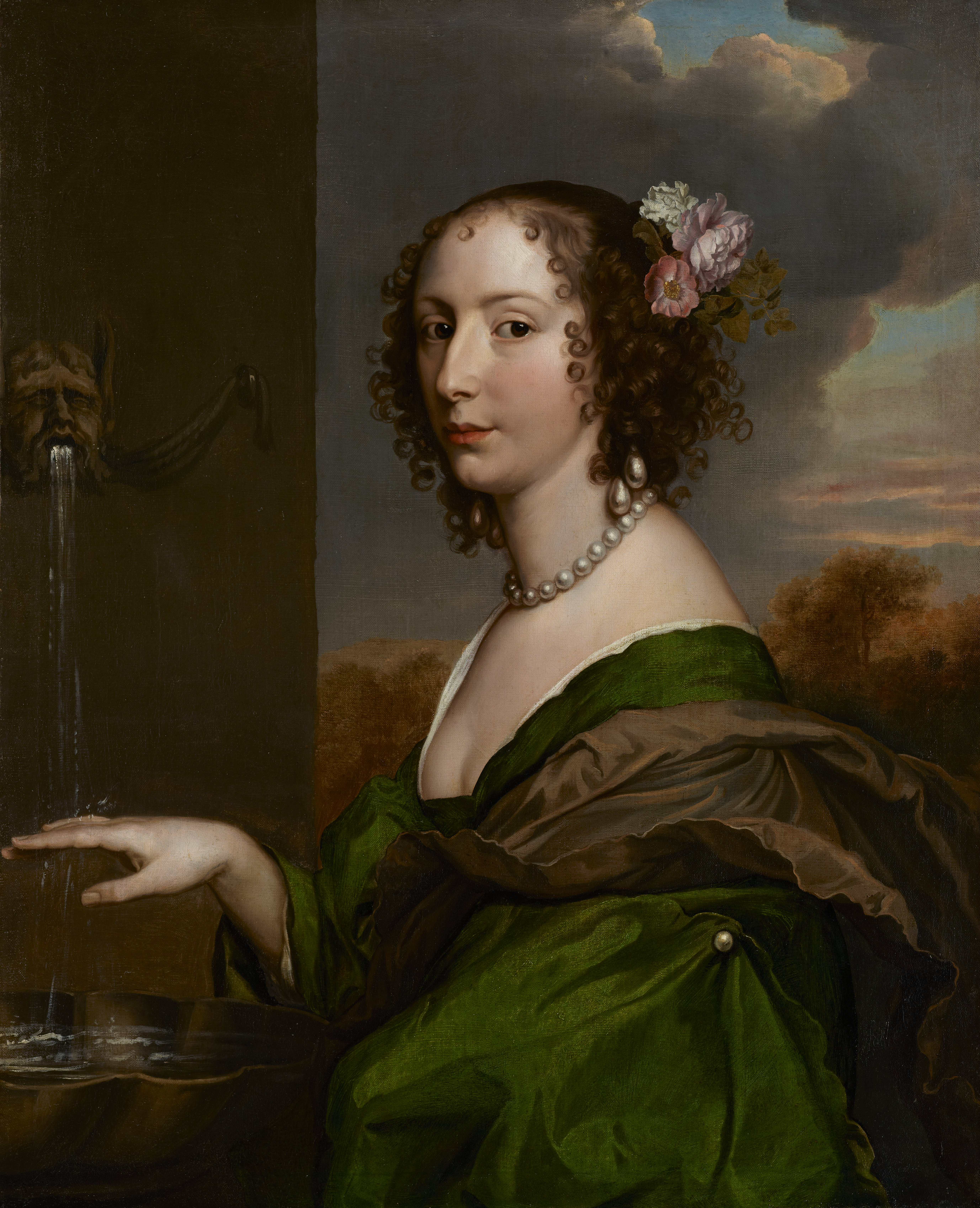 Portrait of a woman in a green dress and brown scarf with flowers in her hair, pearl necklace and earrings, at a fountain.